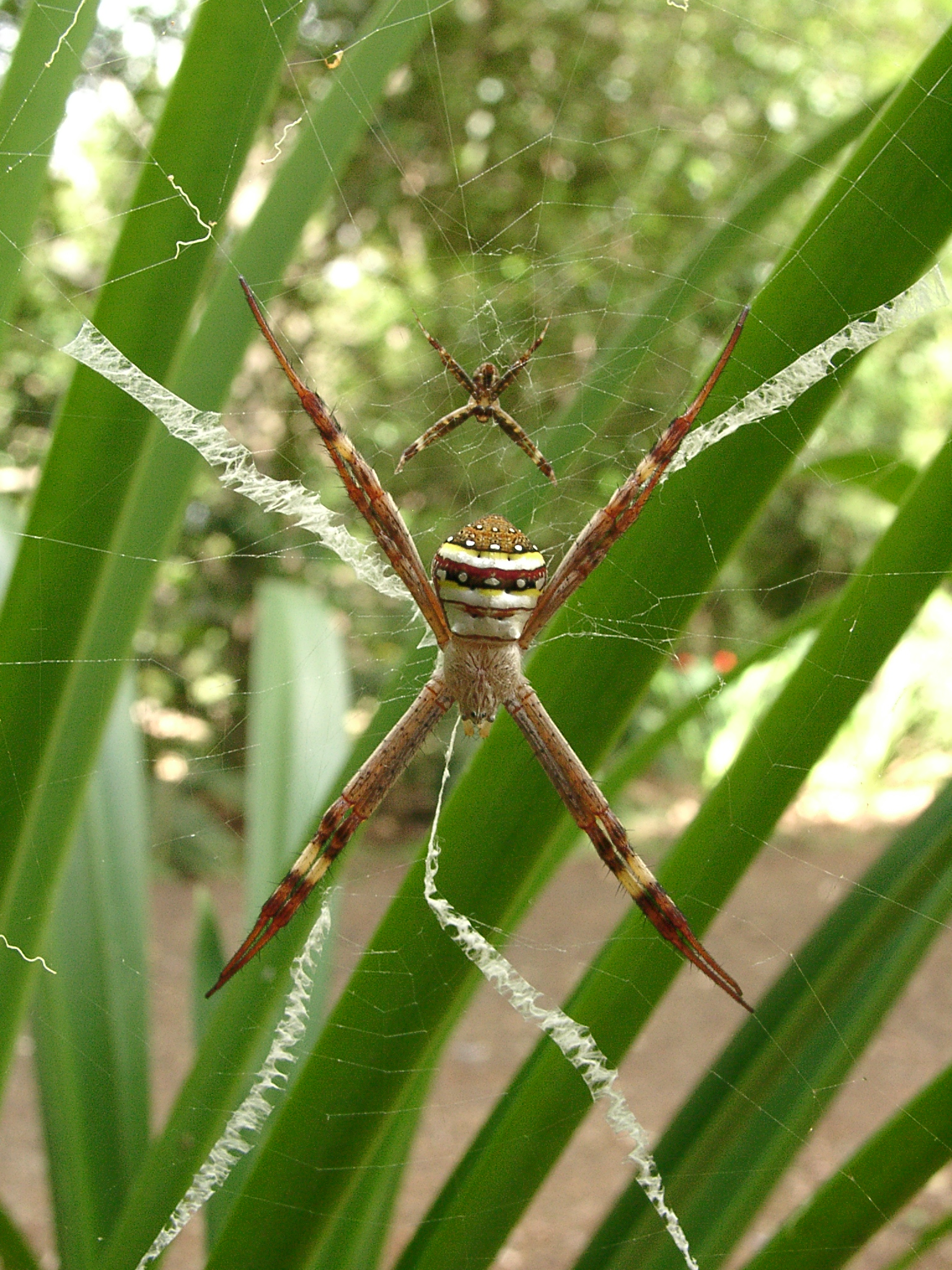 Saint Andrew's Cross Spider